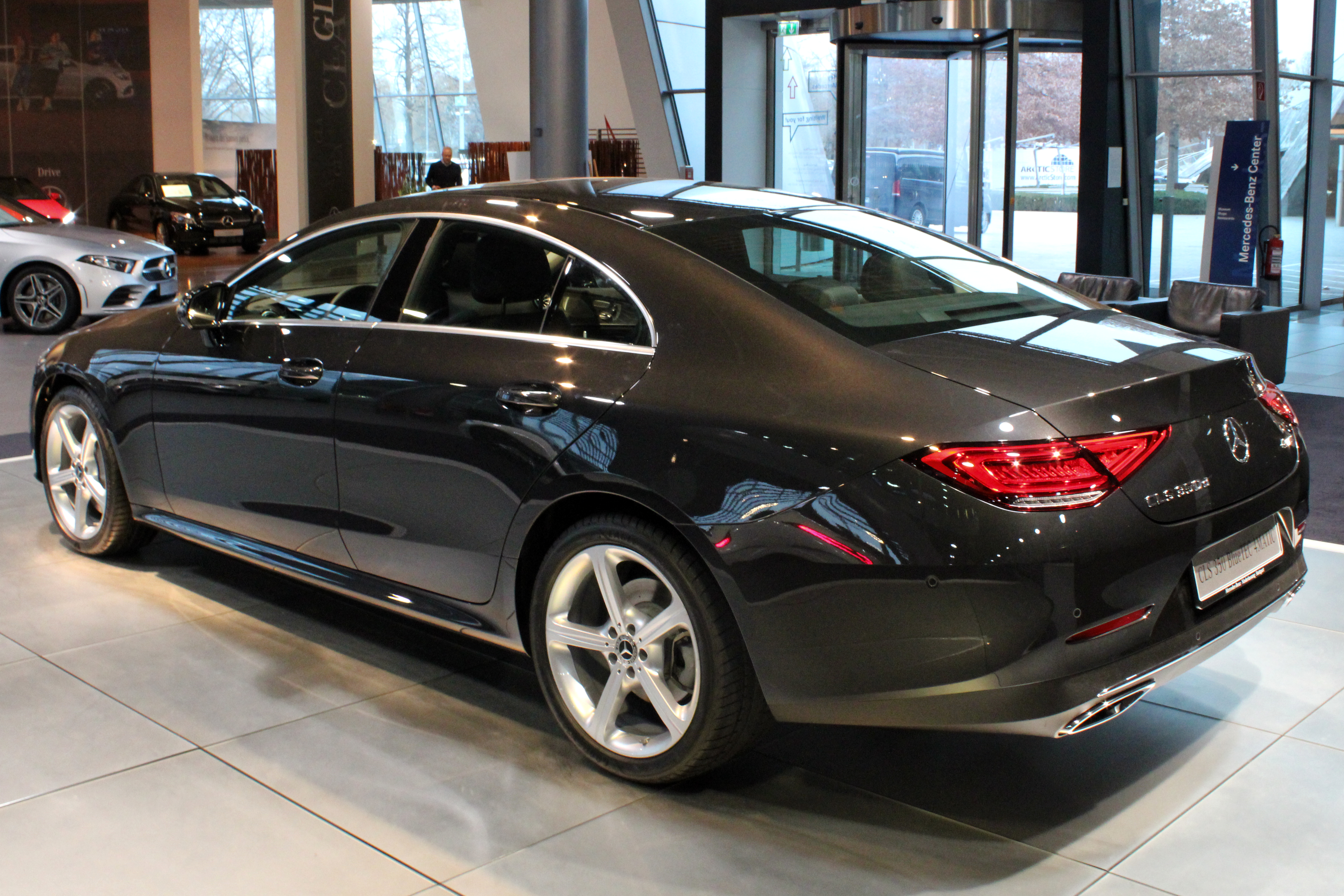 Mercedes-Benz CLS 350d